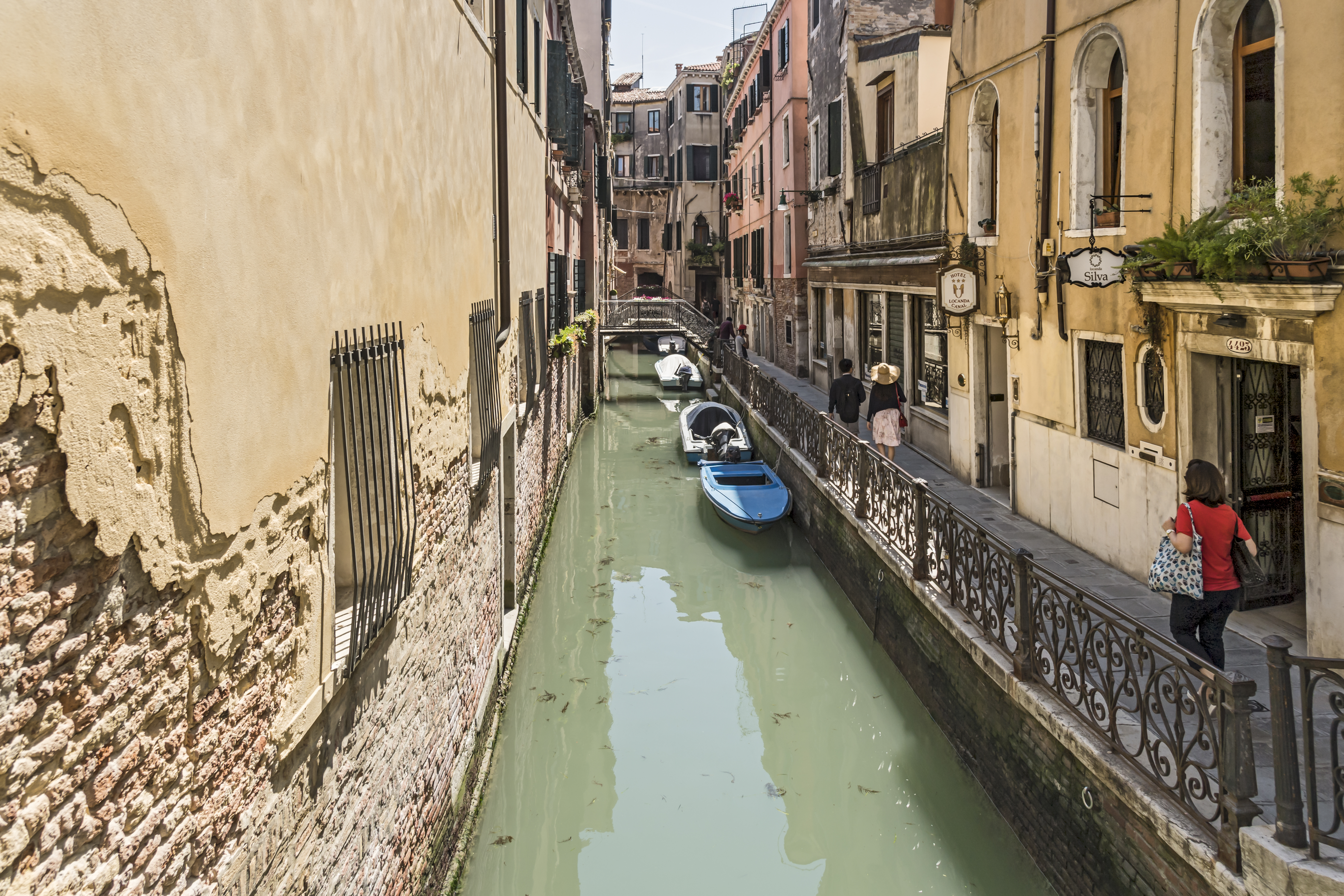 Rio del Remedio(Northern part of rio San Zaninovo, seen from the Ponte Pasqualigo.